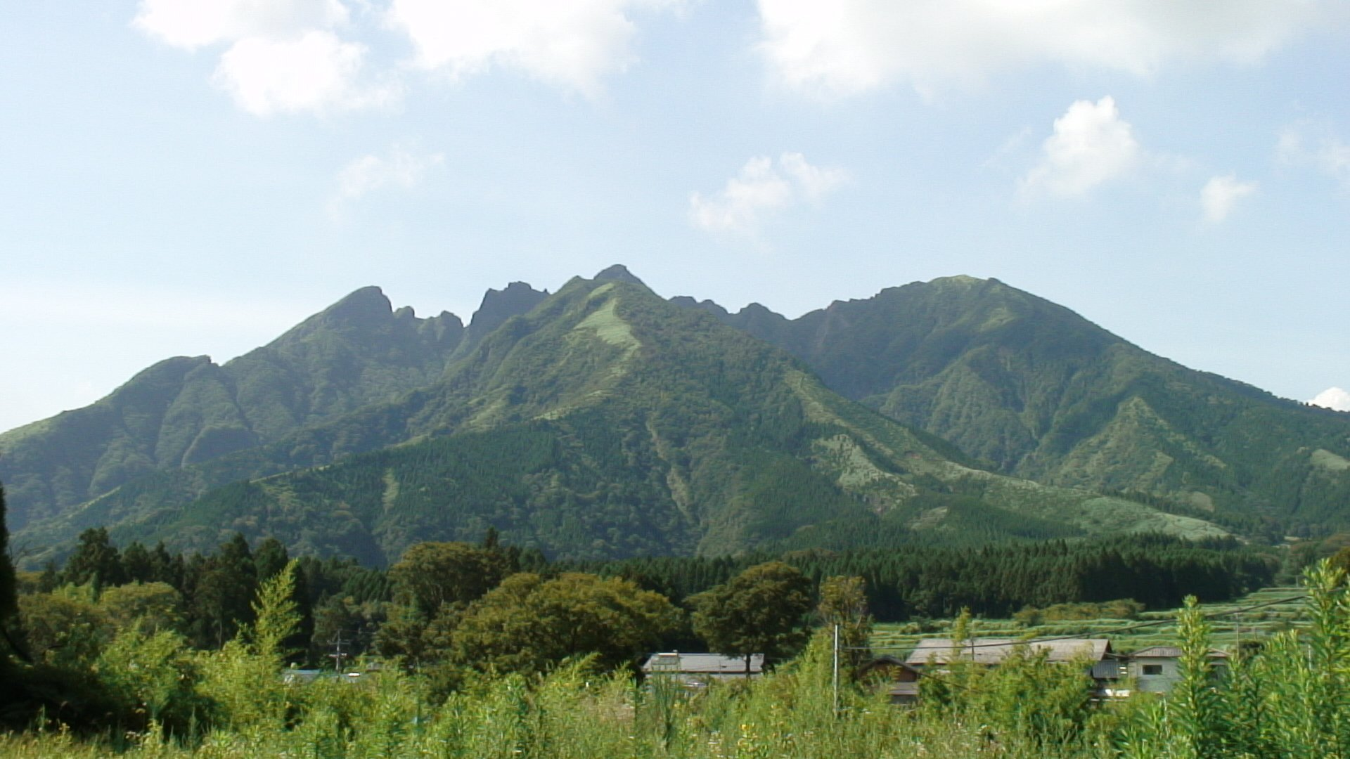 Mount Neko (Neko-dake) in the Aso Caldera, Kumamoto Prefecture, Japan